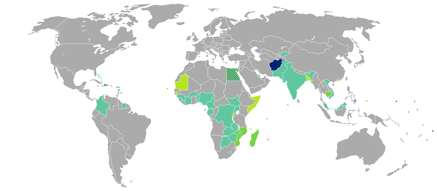 Visa requirements for Afghan citizens Afghanistan Visa free access Visa on arrival eVisa Visa available both on arrival or online Visa required